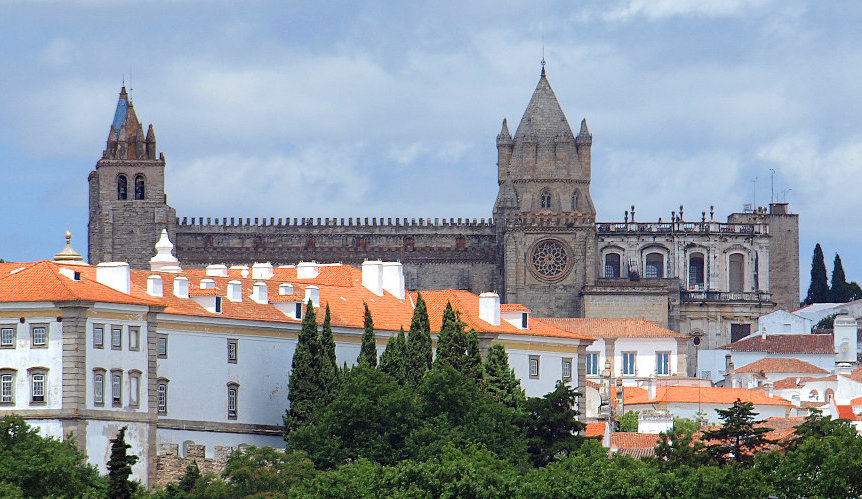 Évora Cathedral view from South of the city